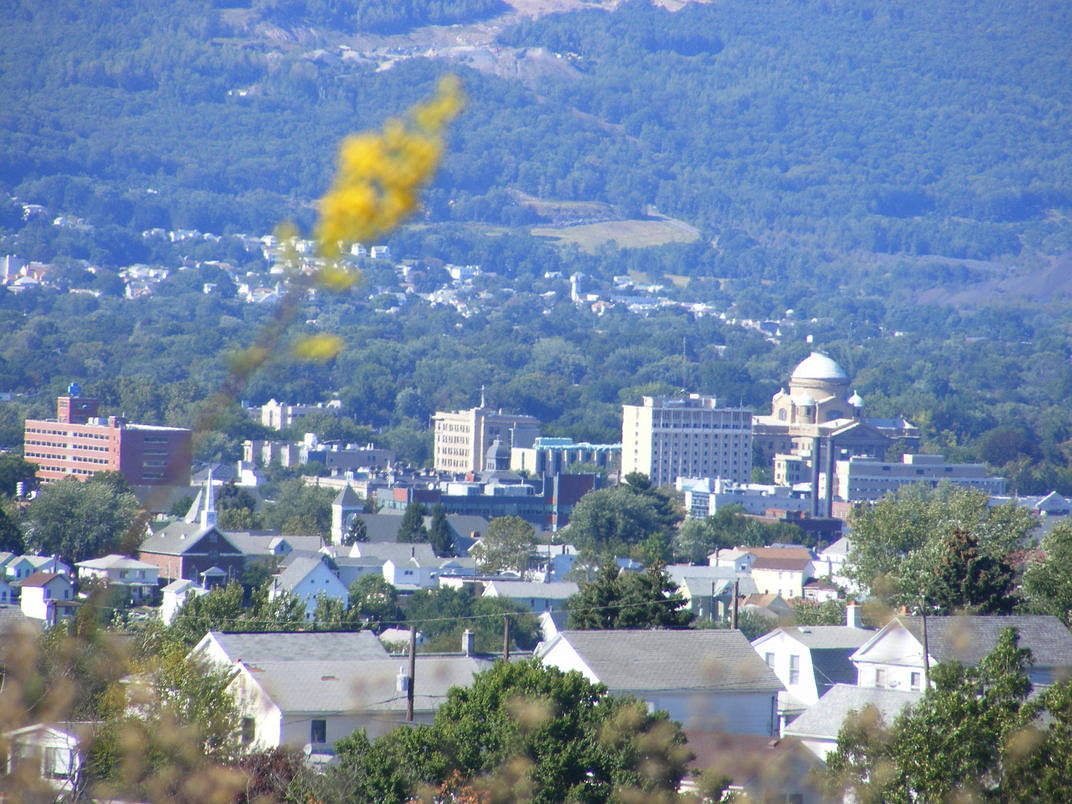 King's College Campus from Giants Despair Mountain